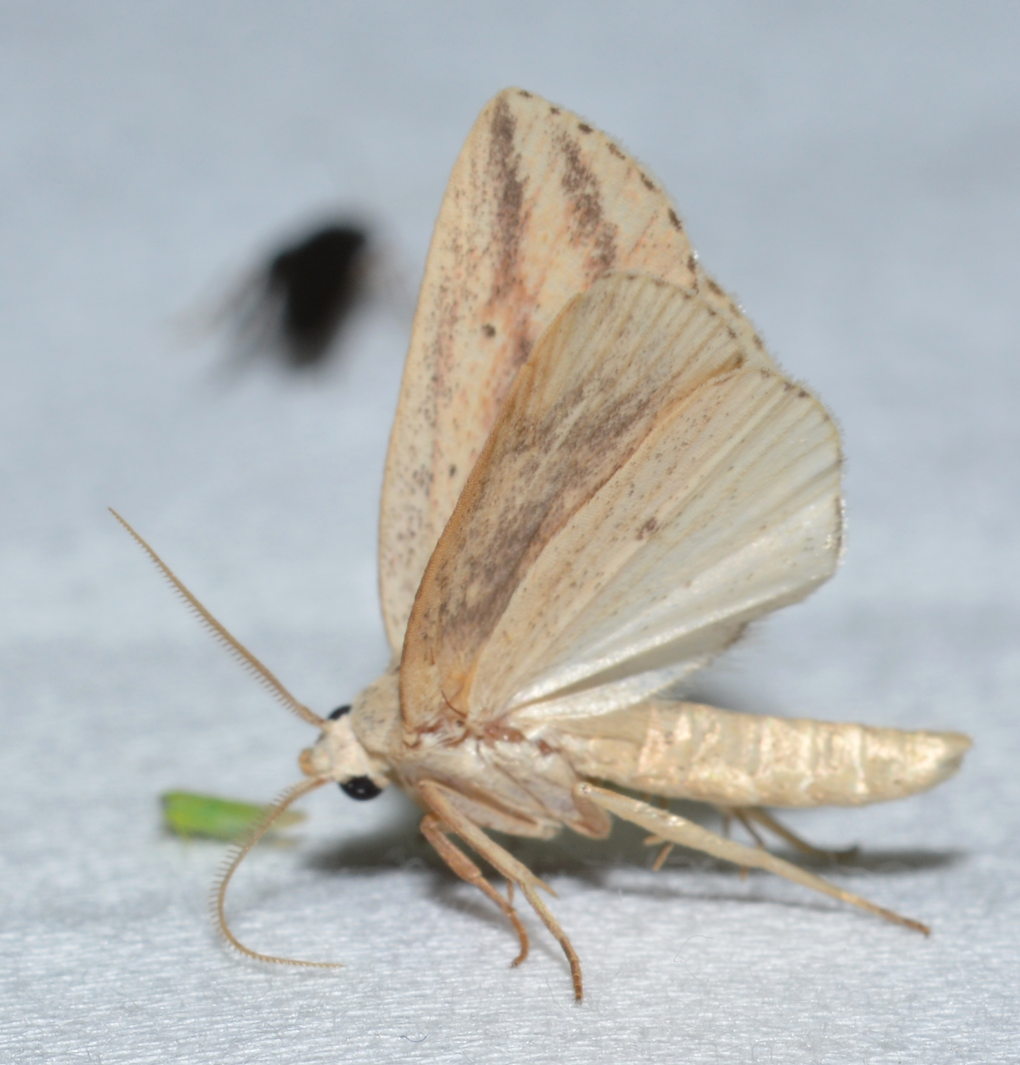 Cuivre River State Park 7/8/17 Troy, MO Moth Night